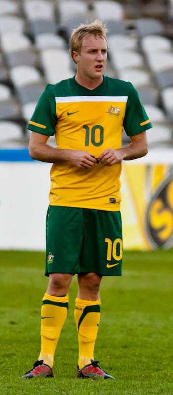 Mitchell Nichols playing for the Australian Olympic Football team against Yemen in 2011 at Gosford, New South Wales.